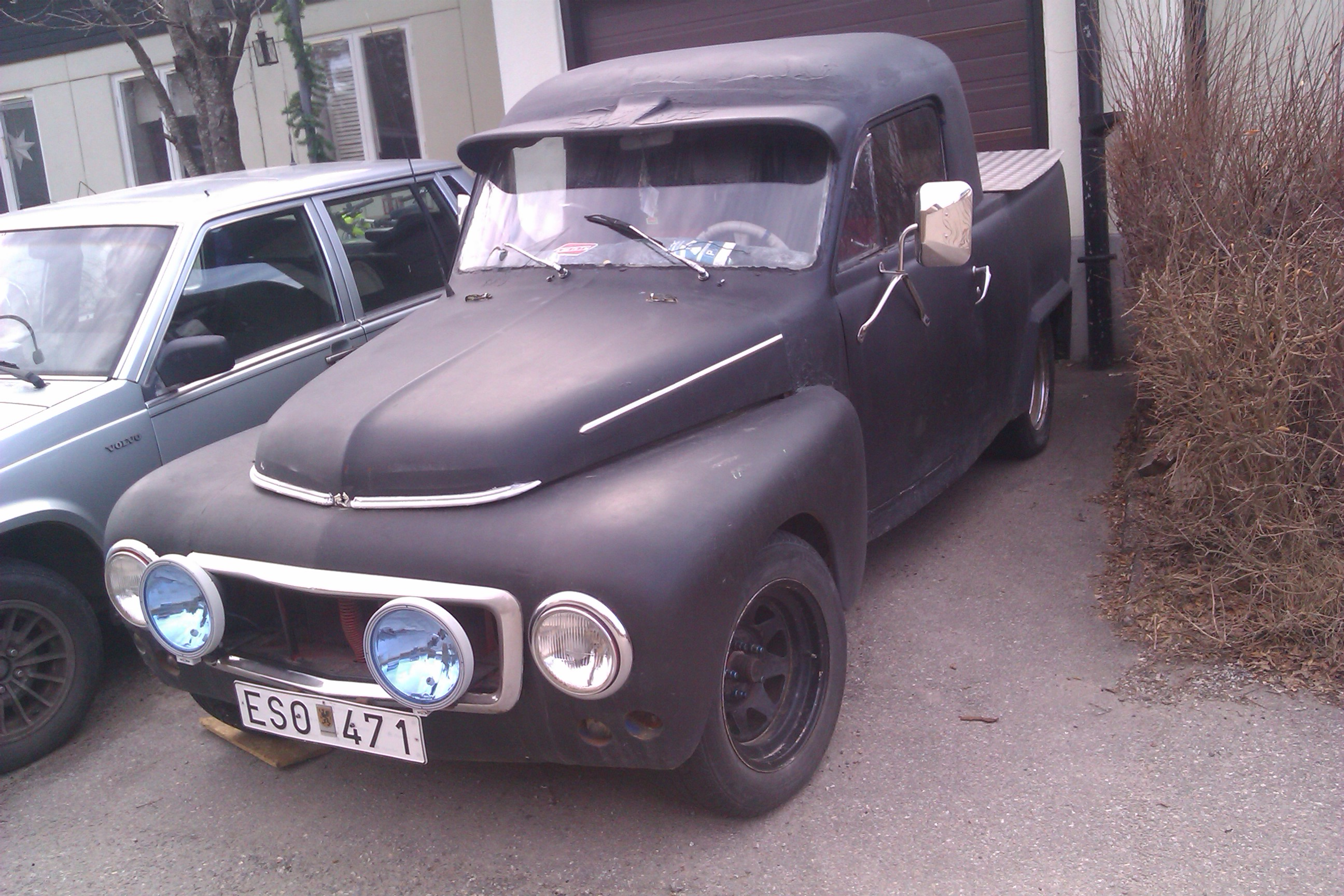 Volvo Duett converted to EPA tractor. Spotted in Södertälje.